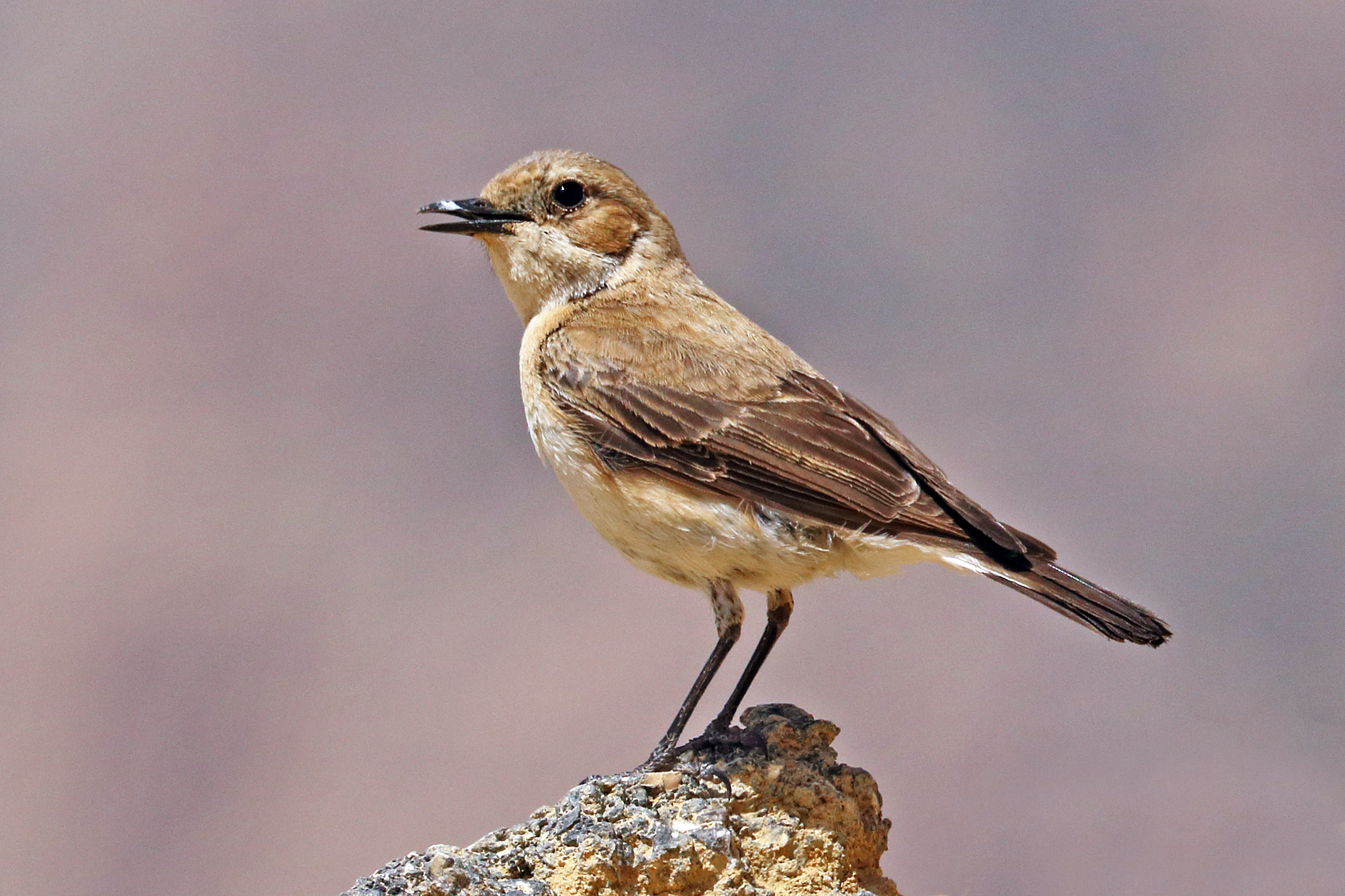 Eastern Black-eared Wheatear (Oenanthe melanoleuca) female, Dana Biosphere Reserve, Jordan